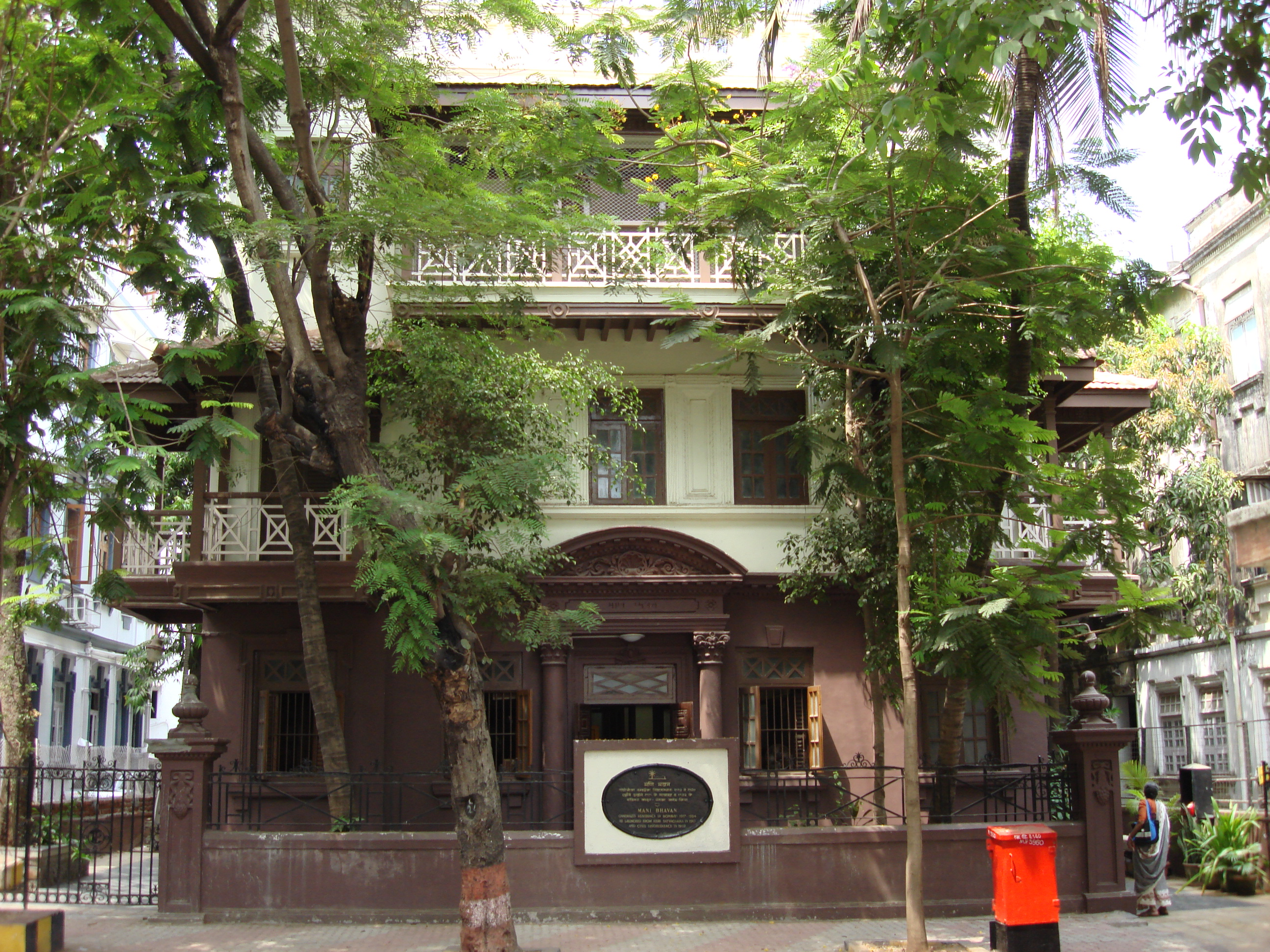 Mani Bhavan, located at # 19, Laburnum Road in the Gamdevi precinct of downtown Mumbai, acted as the focal point of Gandhi's political activities in Mumbai between 1917 and 1934.The mansion belonged to Revashankar Jagjeevan Jhaveri and the Mani family prior to that, Gandhi's friend and host in Mumbai during this period. It was from Mani Bhavan that Gandhi initiated the Non-Cooperation, Satyagraha, Swadeshi, Khadi and Khilafat movements. In 1955, the building was taken over by the Gandhi Smarak Nidhi in order to maintain it as a memorial to Gandhi, to his frequent stays, and to the political activities he initiated from there. Gandhi's association with the charkha (Hindi: Spinning Wheel) began in 1917, while he was staying at Mani Bhavan. Mani Bhavan is also closely associated with Gandhi's involvement in the Home Rule Movement, as well as his decision to abstinence from drinking cow's milking in order to protest the cruel and inhuman practice of phookan meted out to milch cattle common during that period.